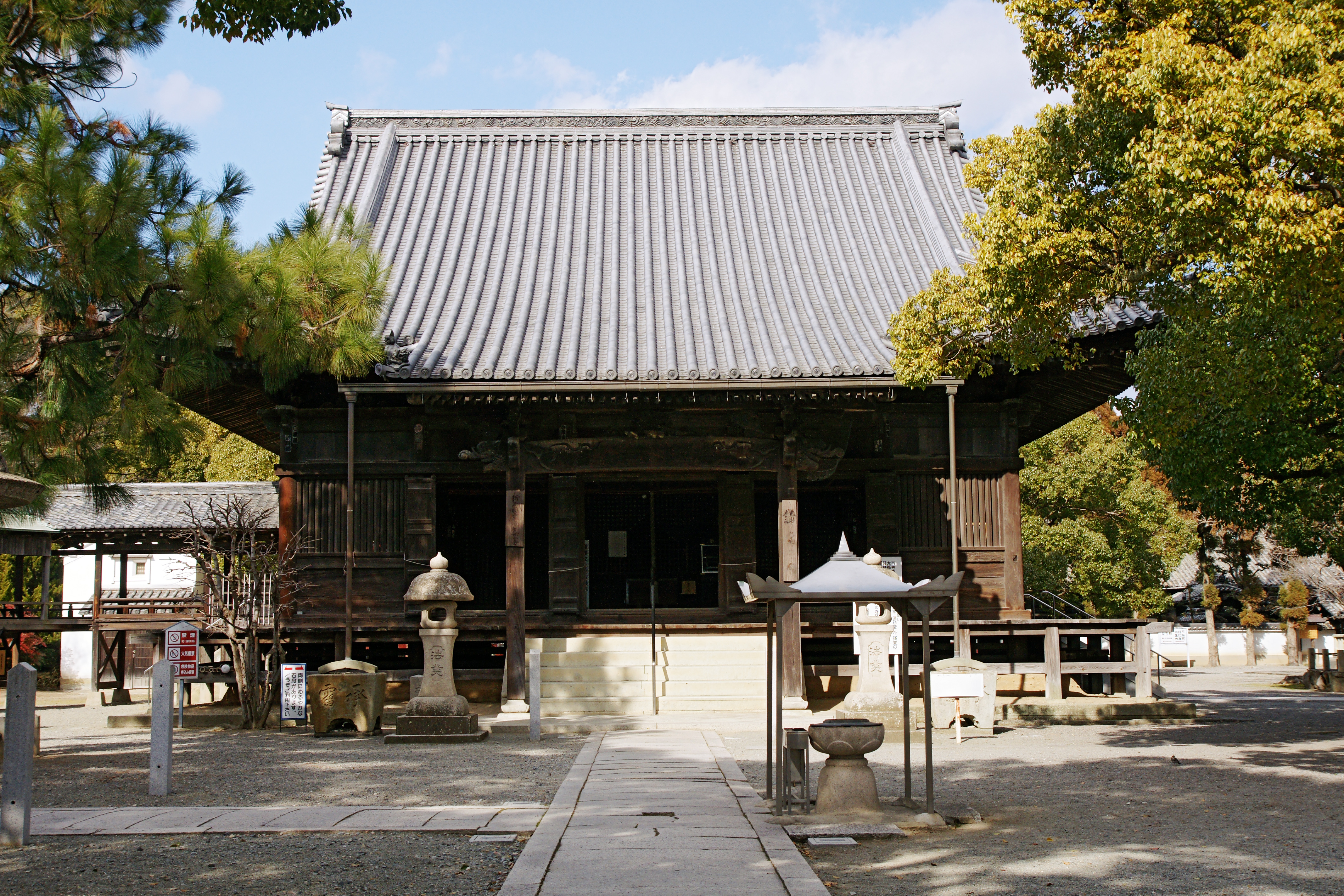 Ikaruga-dera (Hankyu-ji) in Taishi, Hyogo prefecture, Japan.